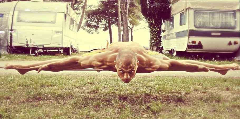 I am invetning my own style of slacklining